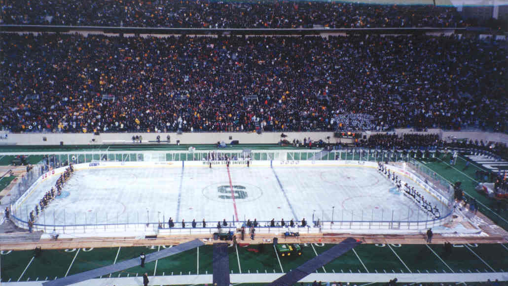 "The Cold War" (University of Michigan vs. Michigan State University) World record hockey attendance: 74,554 October 6, 2001 Michigan State University, East Lansing, MI